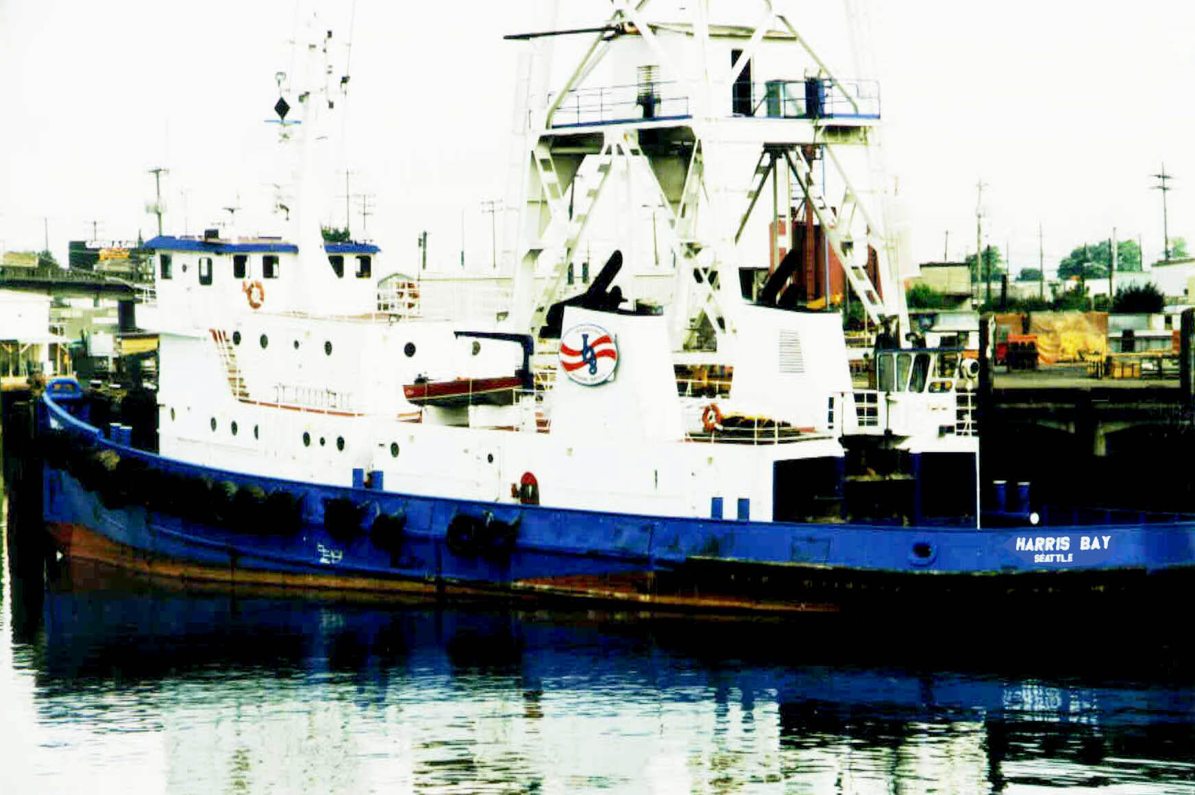 Former Santa Fe tugboat John R. Hayden as Harris Bay. Photo taken in Seattle WA at Marine Power and Equipment docks.